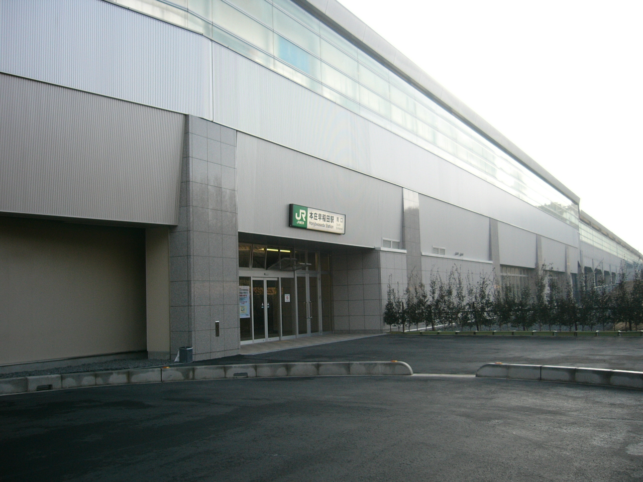 Honjowaseda Station (South Entrance)